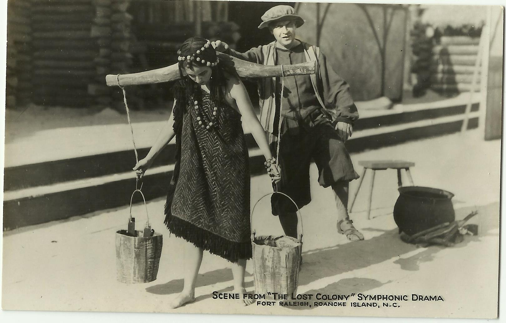 From PhC.184 Massengill Postcard Collection, August 2015 addition, State Archives of North Carolina, Raleigh, NC.